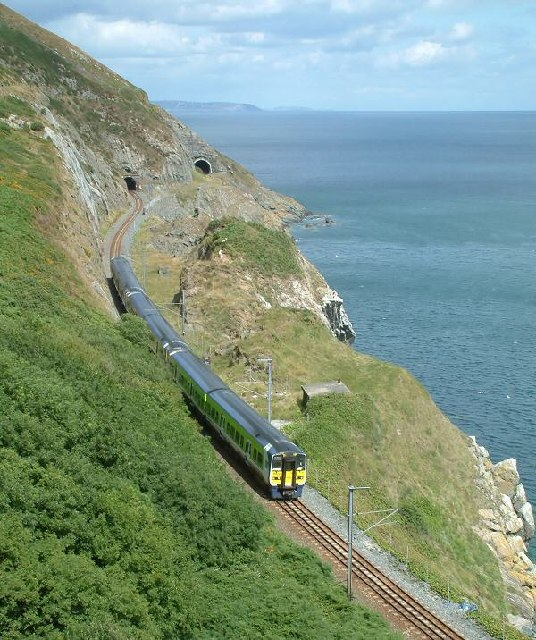 Bray Head, County Wicklow